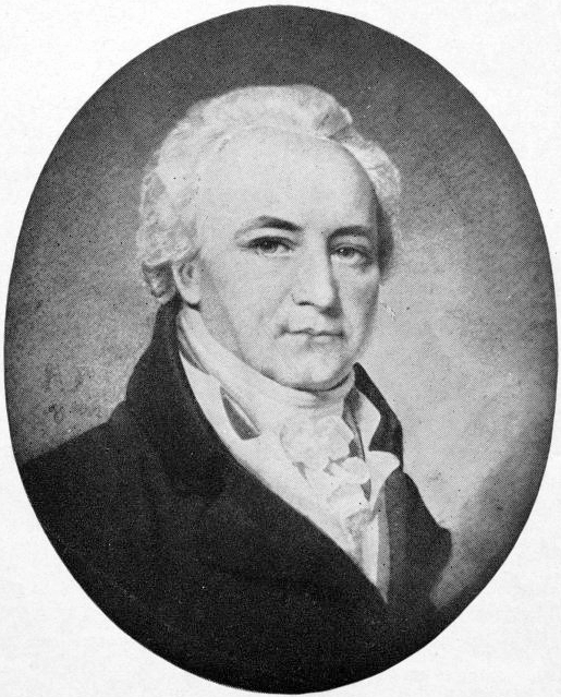 English / American composer Alexander Reinagle (1756-1809).